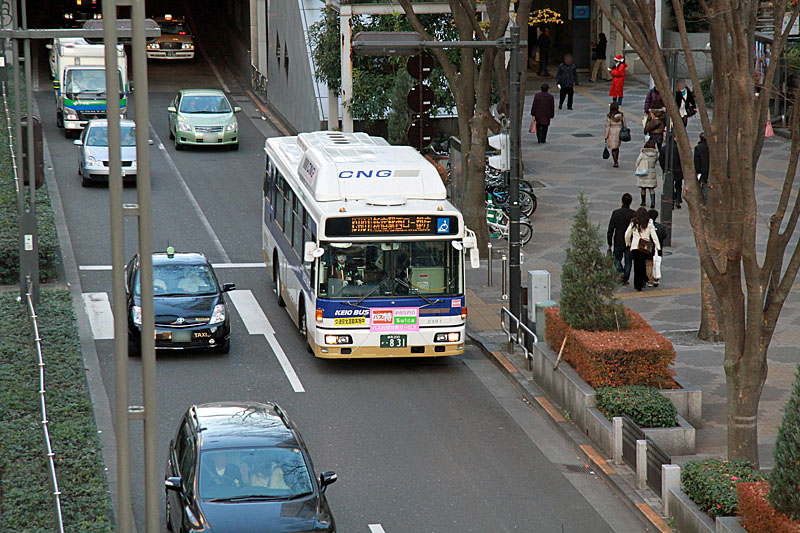 Keio Bus Higashi route "C･H01" 京王バス東 C・H01系統